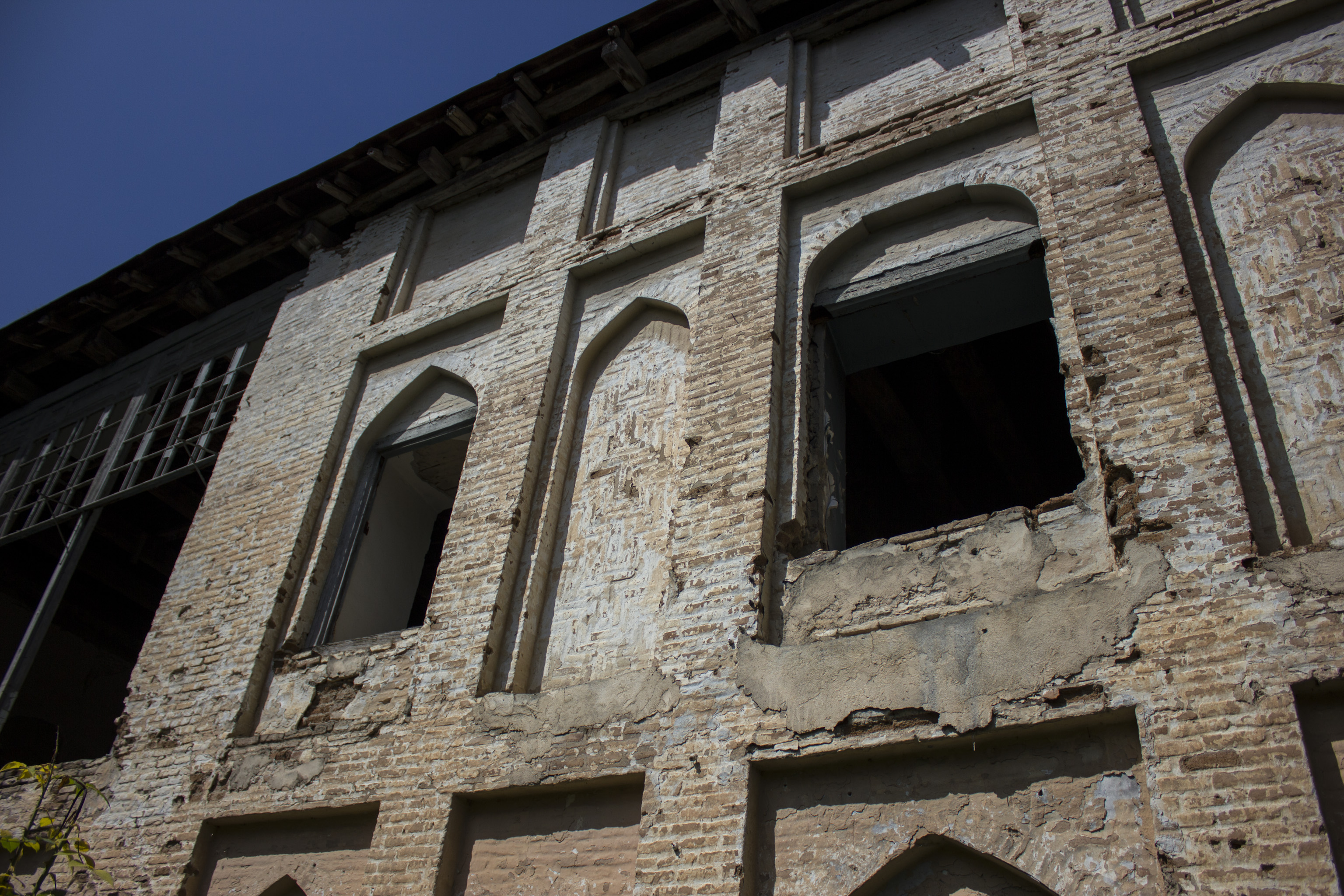 House of an Azeri poetess Khurshidbanu Natavan in Shusha.